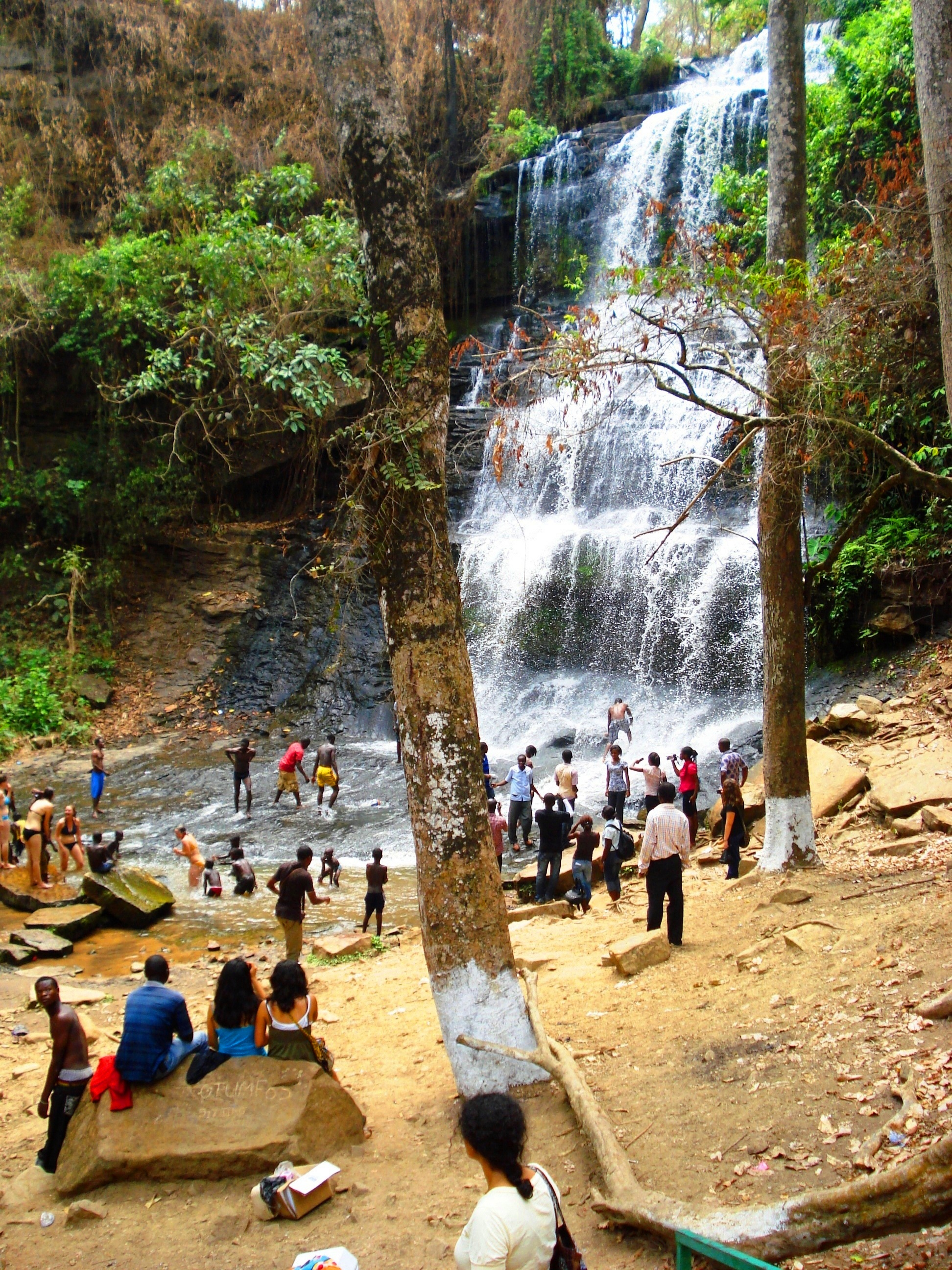 The Pumpu River falls about seventy (70) metres down to create this waterfall. The fall is about 4km away from the town on the Kintampo-Tamale highway. Location: Kintampo, Brong Ahafo Region- Ghana West Africa